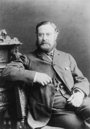 Portrait photograph of Henry Spencer Ashbee by H. T. Reed, 1889